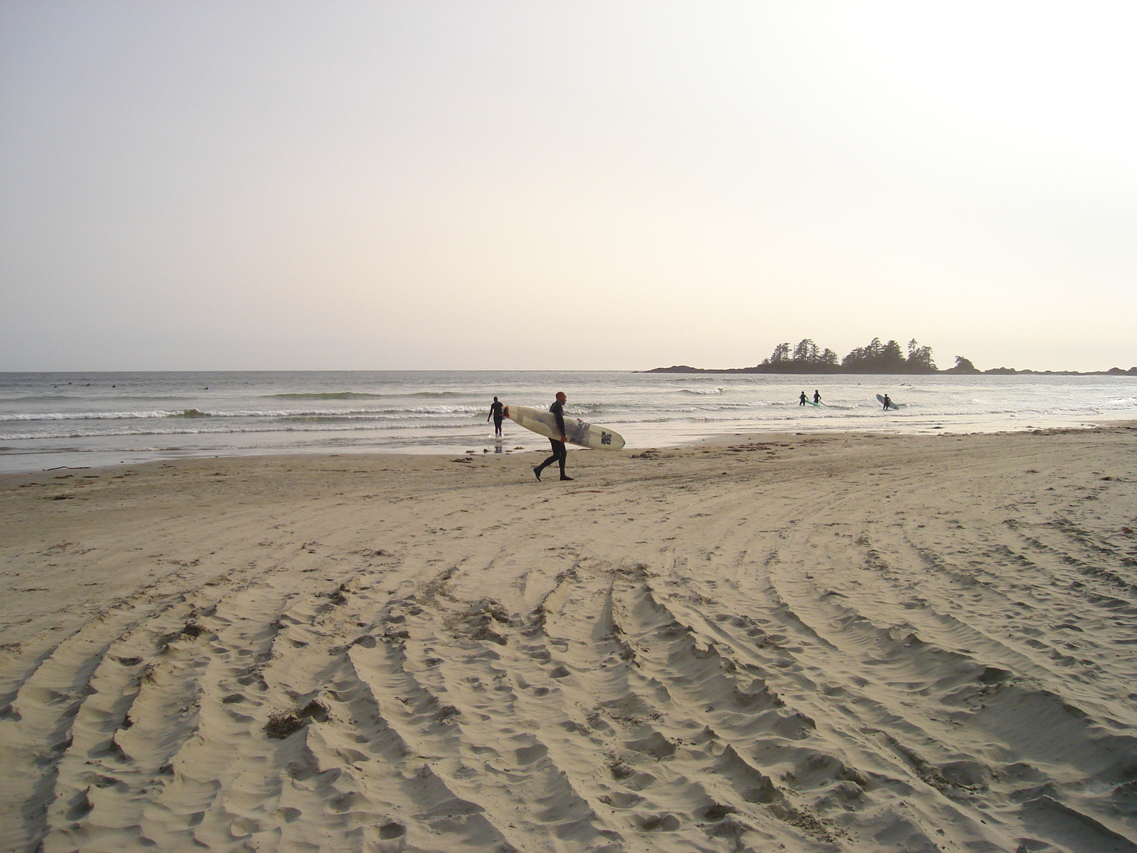 Surfeur, Chesterman Beach, Tofino, Pacific Rim